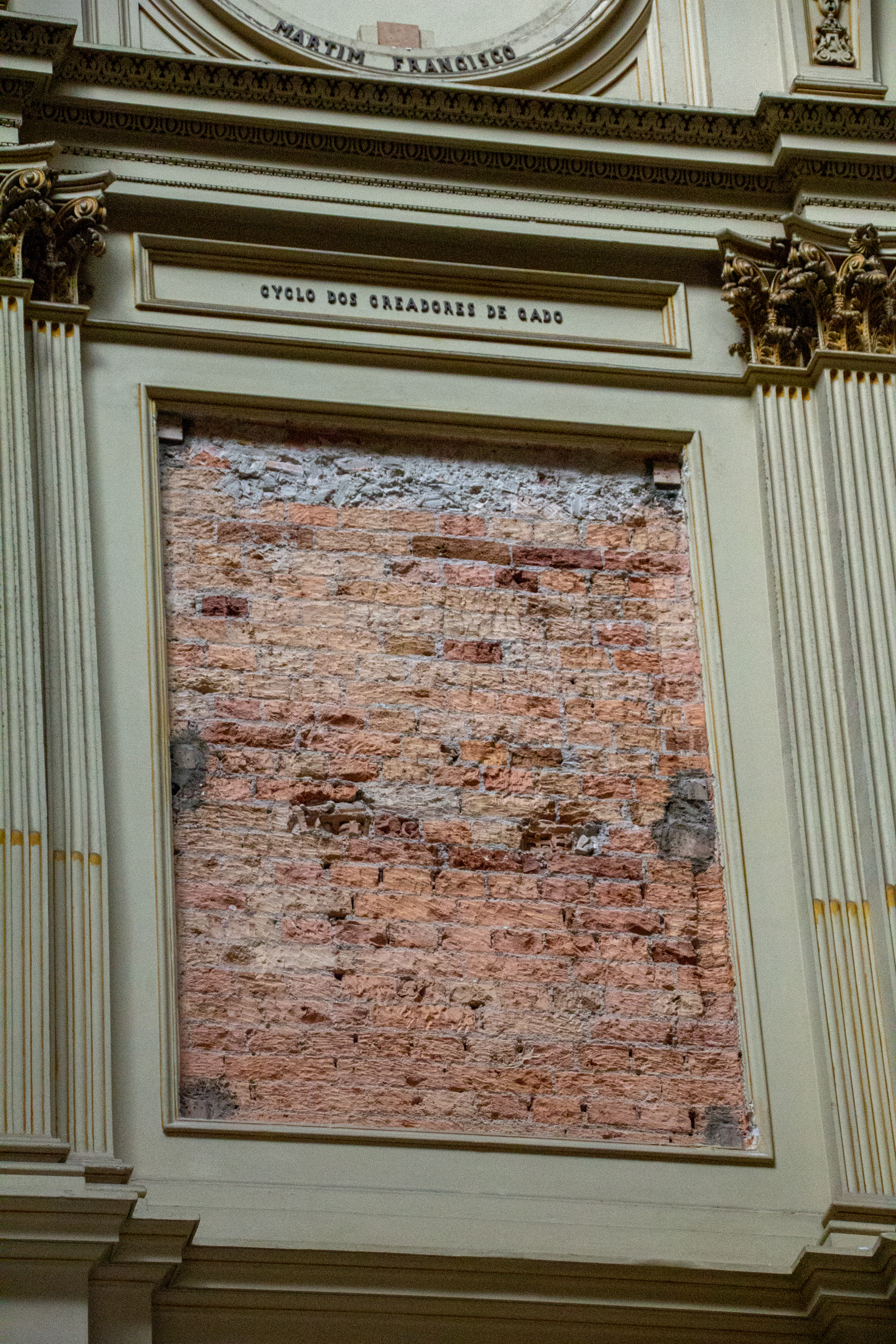 Backstage tour of the Museu do Ipiranga, University of São Paulo, Brazil